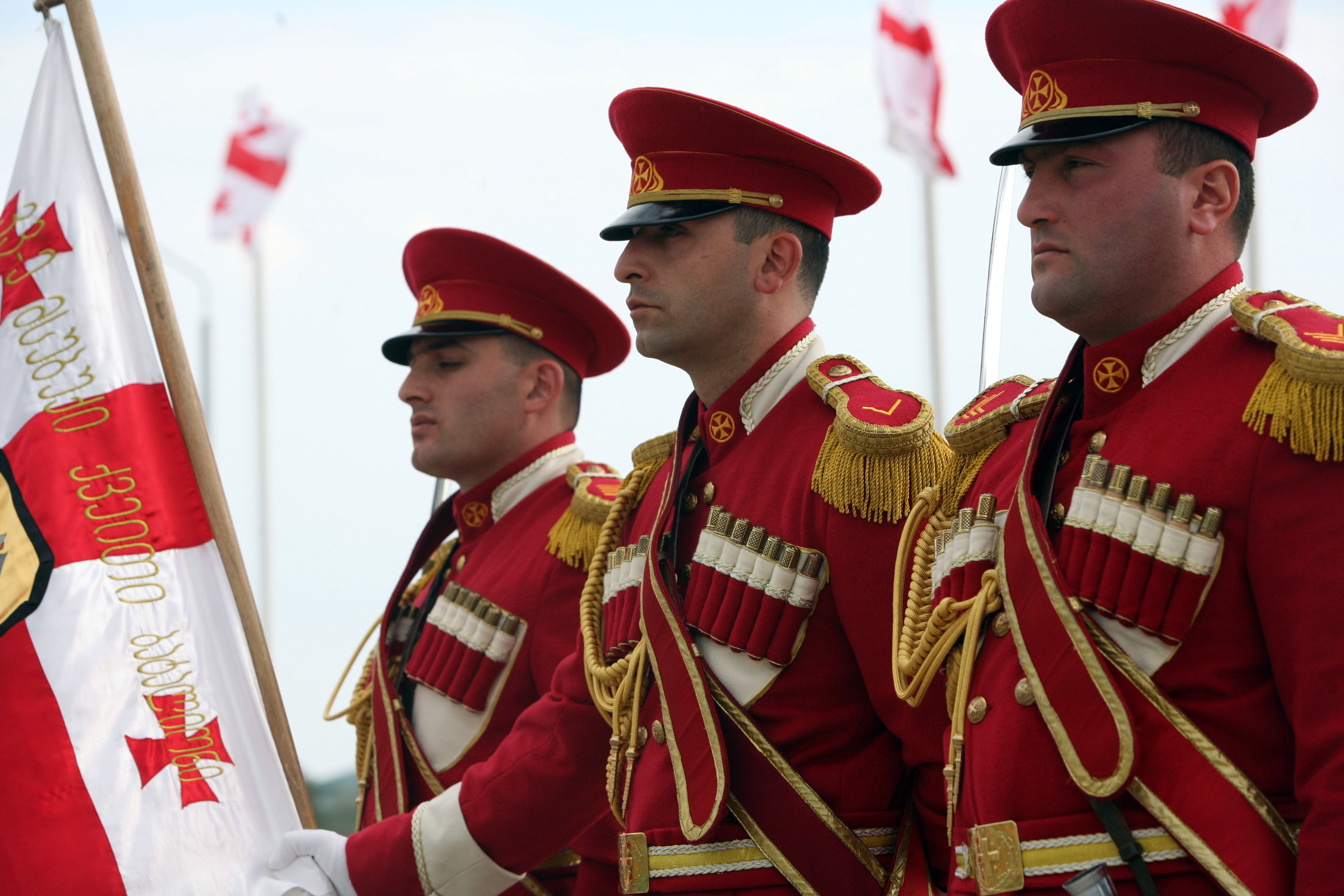 VAZIANI, Republic of Georgia-A color guard from the Republic of Georgia's 33rd Light Infantry Battalion patiently wait for the start of the battalion's deployment ceremony at Vaziani Training Area. The 33rd LIB recently concluded a six-month training package in preparation for their upcoming deployment to the Helmand Providence, Afghanistan in support of Georgia Deployment Program - International Security Assistance Force (ISAF). , Gunnery Sgt. Alexis R. Mulero, 4/8/2011 6:16 PM